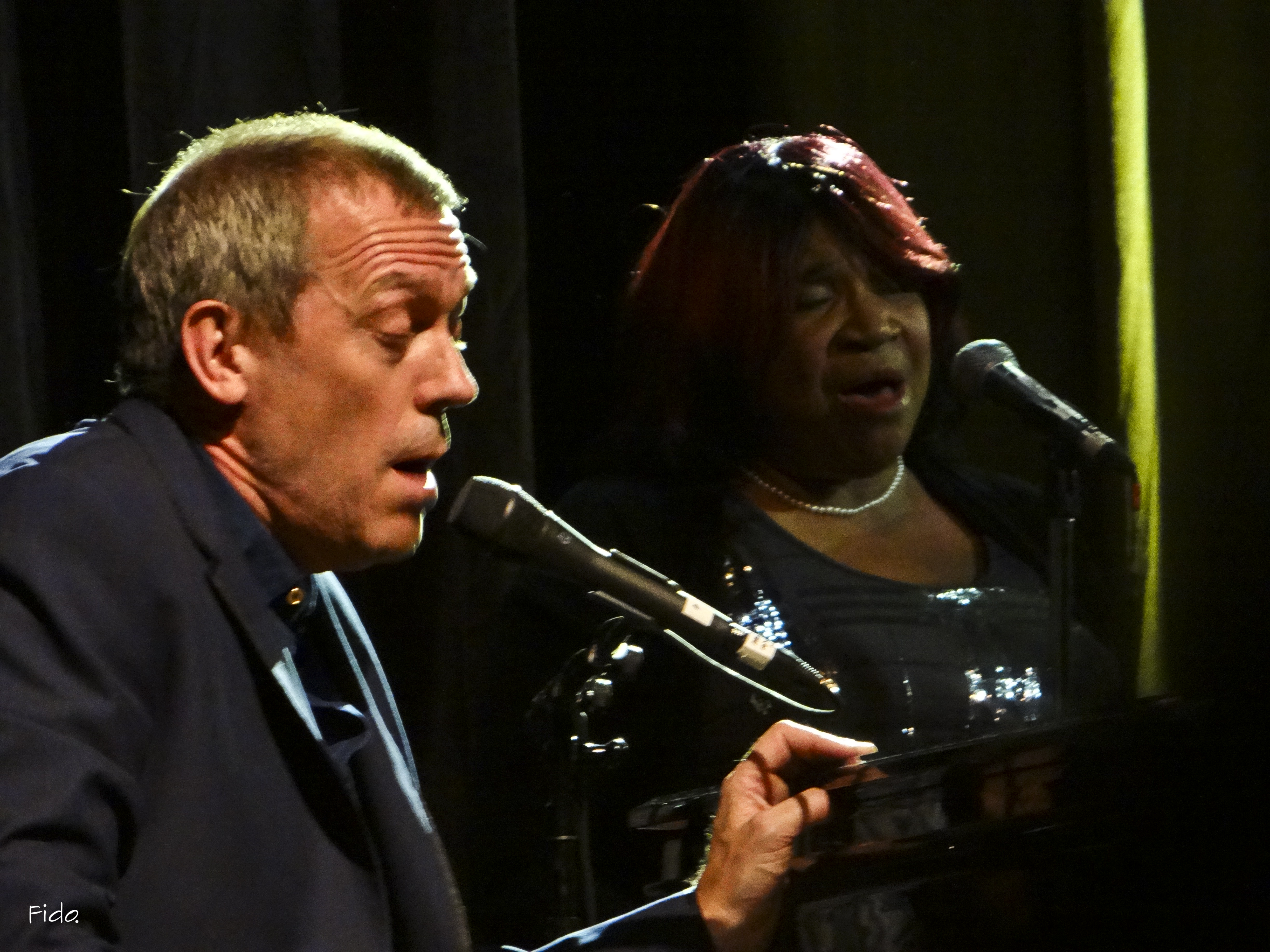 Presentation @ El Rey Theatre Los Angeles, California 5/24/2012